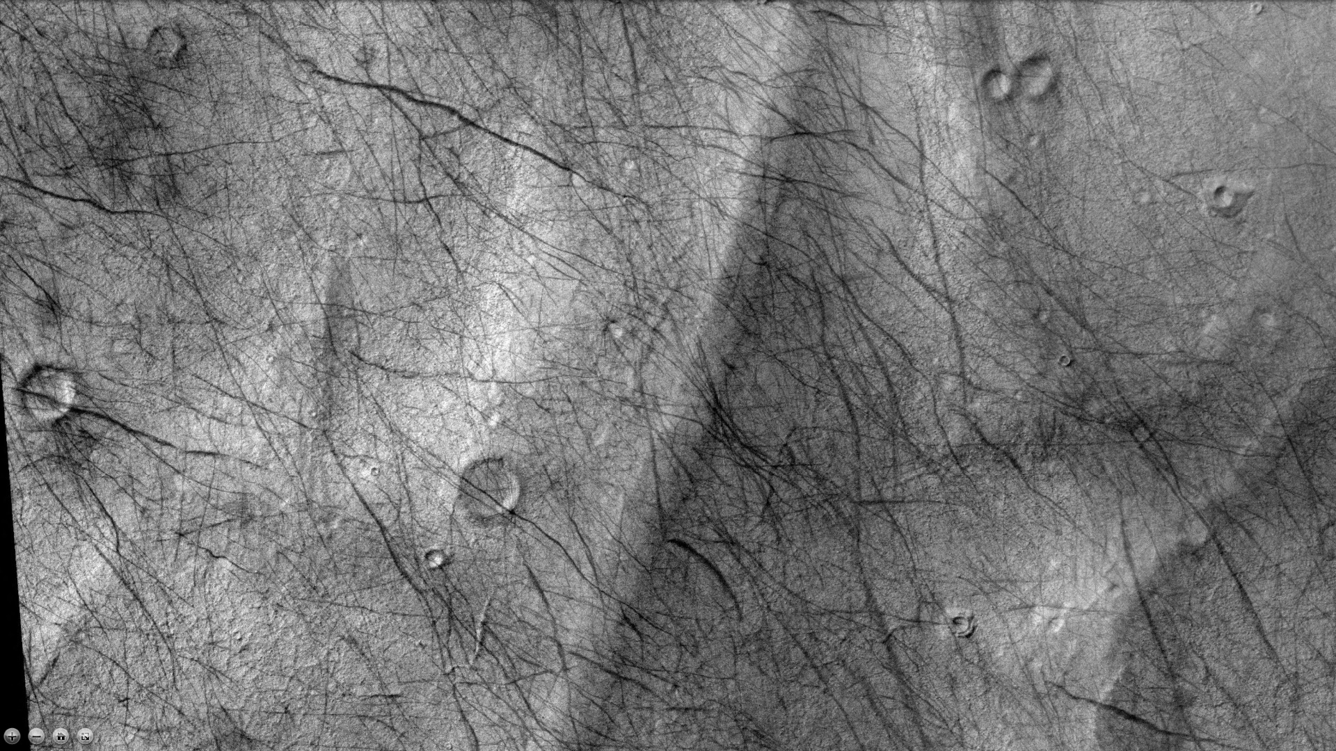 Lau Crater showing eskers and dust devil tracks, as seen by ctx